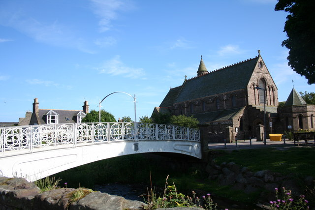 St James' and the Carron Bridge The bridge and the church. St James' Episcoplaian Church and a means of access the tidy white footbridge over the Carron. The church is Category A listed under ID 41552 and the bridge is Category C listed under ID 41553